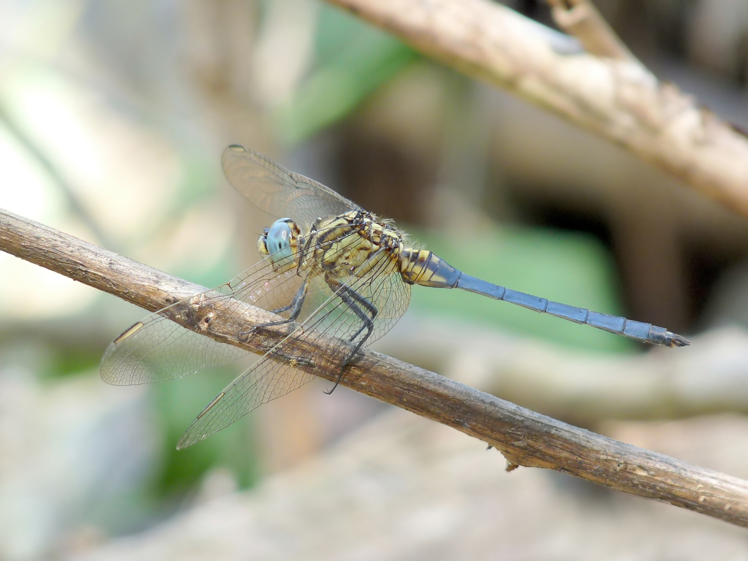 Orthetrum luzonicum, Tricolored Marsh Hawk, is a medium sized dragonfly with blue, yellow and brown markings. Eyes are bluish green with violet or brownish spots. Thorax is pale olivaceous green with brown lateral stripes. Dorsal side has a distinct yellow "Y" shaped mark. In older individuals, brown and yellow markings may be totally replaced by pale blue pruinescence. They look alike Orthetrum glaucum and Orthetrum triangulare. However, the eyes of Orthetrum luzonicum are a vivid blue/green colour and of Orthetrum glaucum eyes are dull in comparison. The male's thorax and abdomen are bright powdery blue and S9-10 can be black, though there are specimens where this turns blue too. The males also have slight yellow/black markings on the abdomen, which seem slightly variable depending on age. Like the male, the female becomes pruinosed. The thoracic markings are different and the eyes are similar in colour to that of the male, making it easily identifiable. Taken at Kadavoor, Kerala, India.